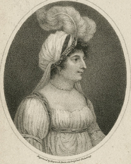 Collection: Folger Shakespeare Library Digital Image Collection Collection Folger Shakespeare Library Digital Image Collection Collection Source Creator: Hopwood, James, ca. 1752-1819, printmaker. Author Hopwood, James, ca. 1752-1819, printmaker. Source Creator Source Title: Mrs. Billington [graphic] / engraved by Hopwood from an original painting. CD_Title Mrs. Billington [graphic] / engraved by Hopwood from an original painting. Source Title Source Created or Published: [London, England] : pub. by T. Hurst, Dec. 1, 1801. Imprint [London, England] : pub. by T. Hurst, Dec. 1, 1801. Source Created or Published Source Call Number: ART File B598 no.1 (size XS) Call_Number ART File B598 no.1 (size XS) Source Call Number Digital Image File Name: 21058 ROOTFILE 21058 Digital Image File Name Digital Image Type: FSL collection Image_Type FSL collection Digital Image Type Hamnet Bib ID: 250639 Bibrecord001 250639 Hamnet Bib ID Hamnet Holdings ID: 324663